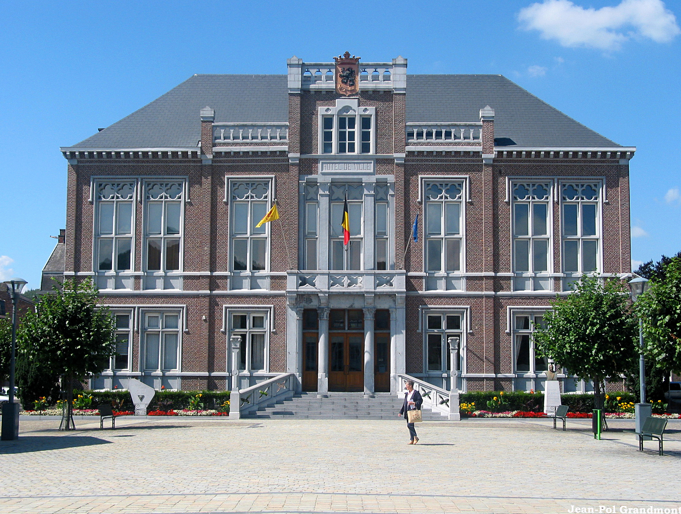 Andenne (Belgium), the town hall (1867-1871).